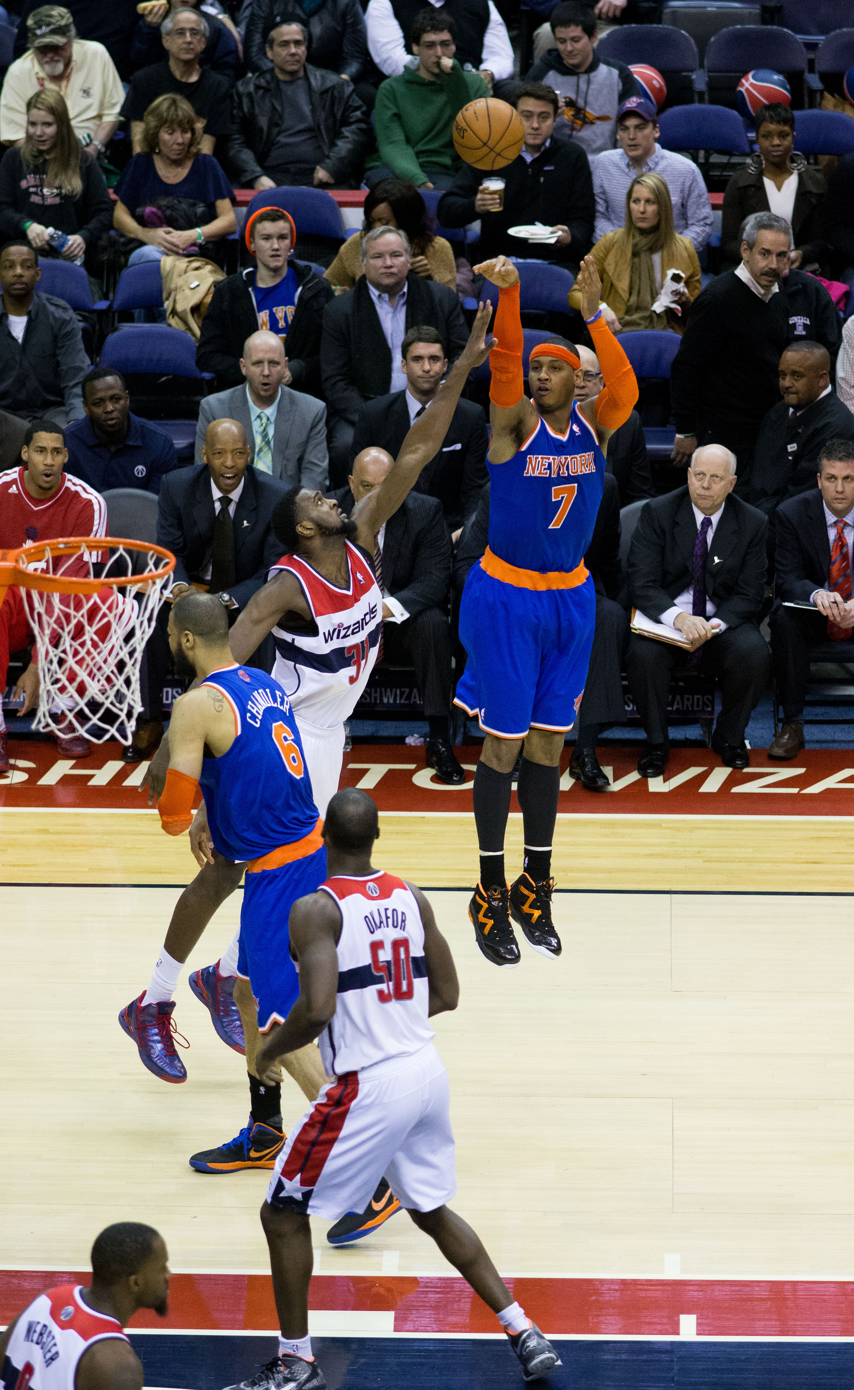 New York Knicks at Washington Wizards March 1, 2013